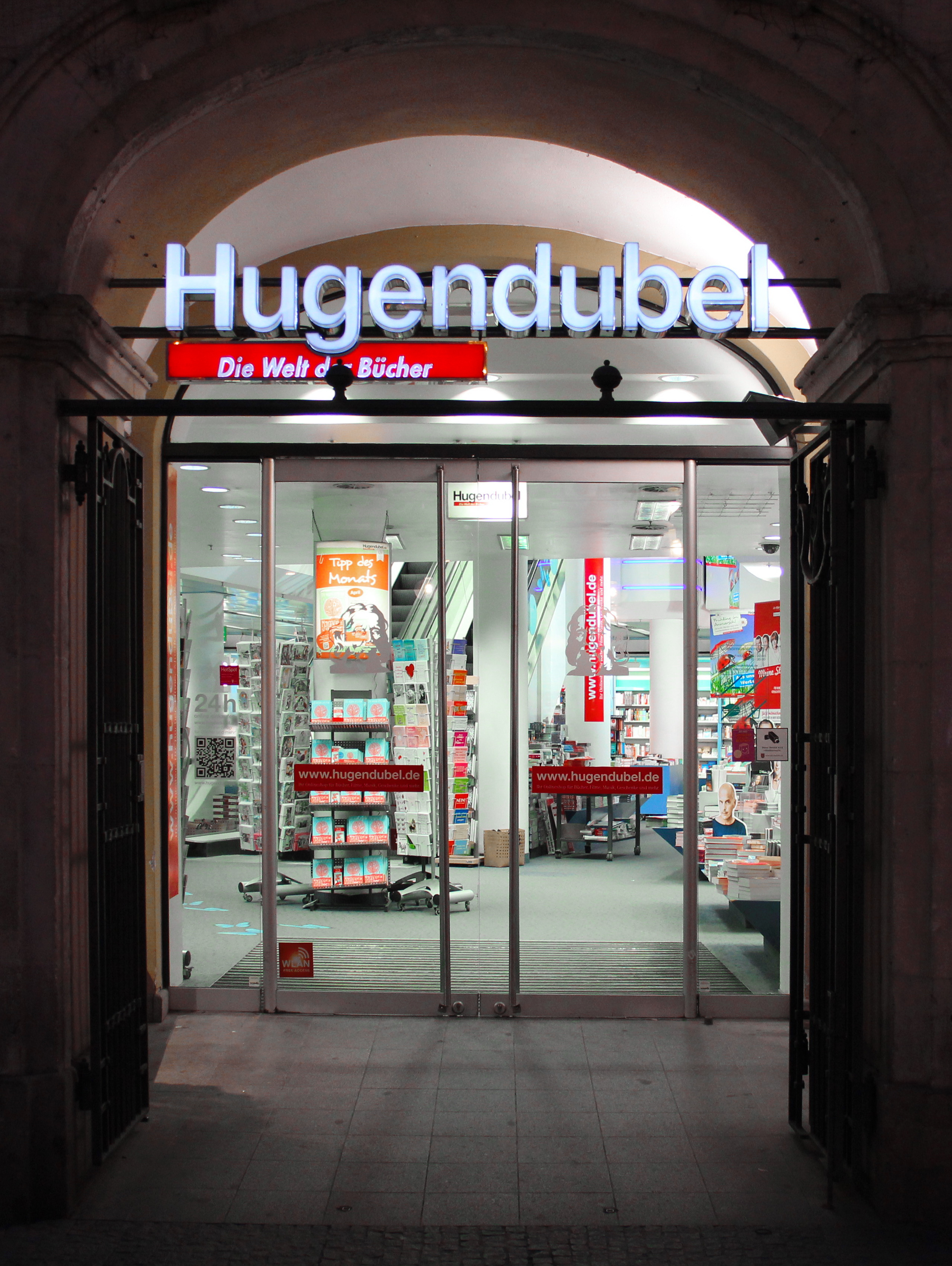 Hugendubel entrance gate on the Karlsplatz (Stachus) in Munich.